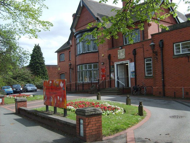 Bilston Art Gallery This building also houses the library and museum. A fine collection of world famous Bilston Enamel Boxes is displayed inside.